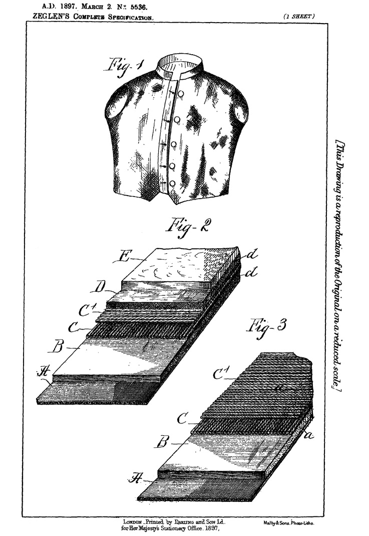 Improvements in bullet-proof fabrics. Zeglen’s complete specification. British Patent No. 5536, 2 March 1897. Accepted 3 April 1897.